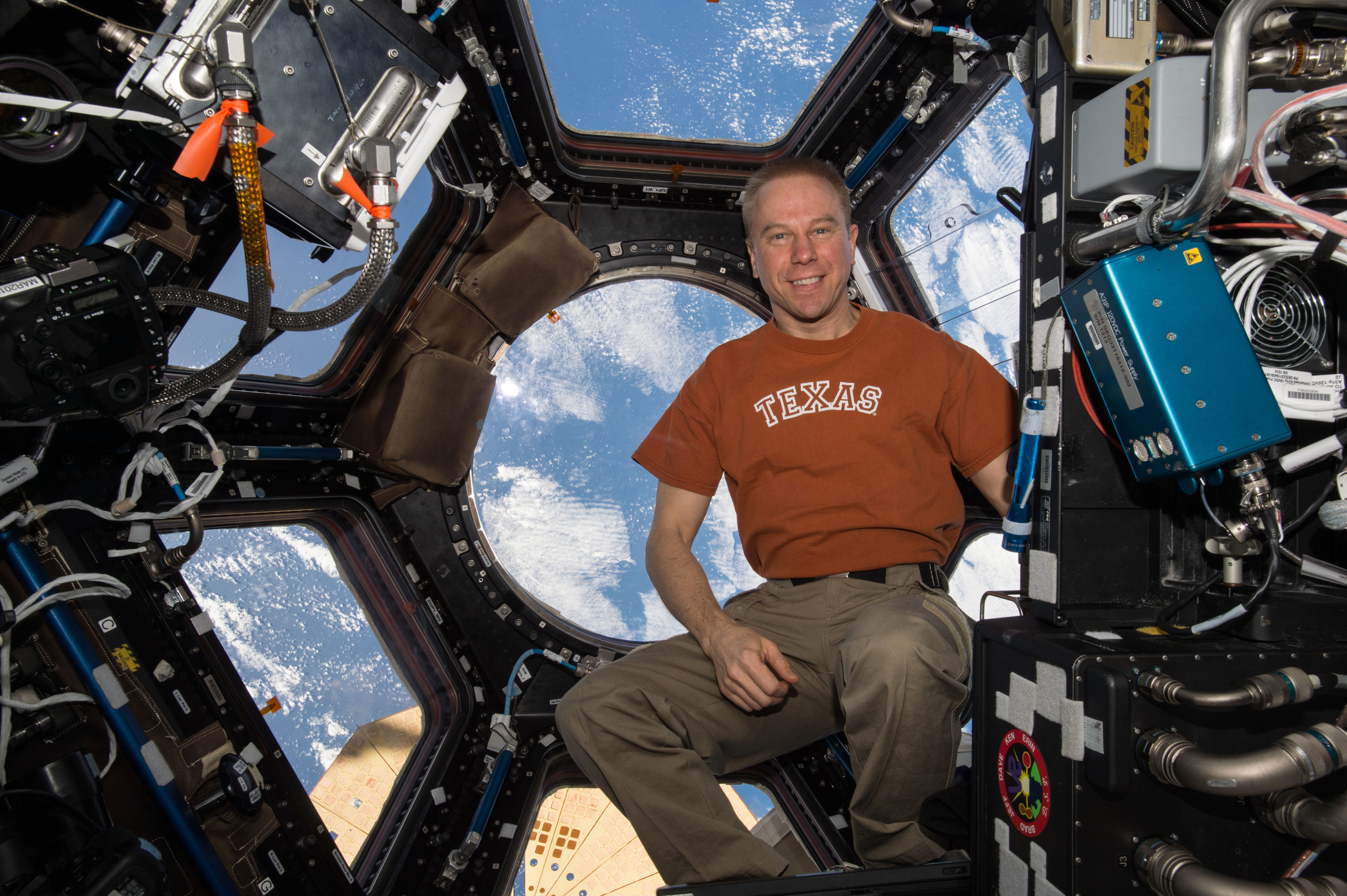 NASA astronaut Tim Kopra poses inside the cupola module onboard the International Space Station. Kopra, who was born in Austin, Texas, is the commander of Expedition 47 and previously served as a flight engineer during Expeditions 46 and 20.